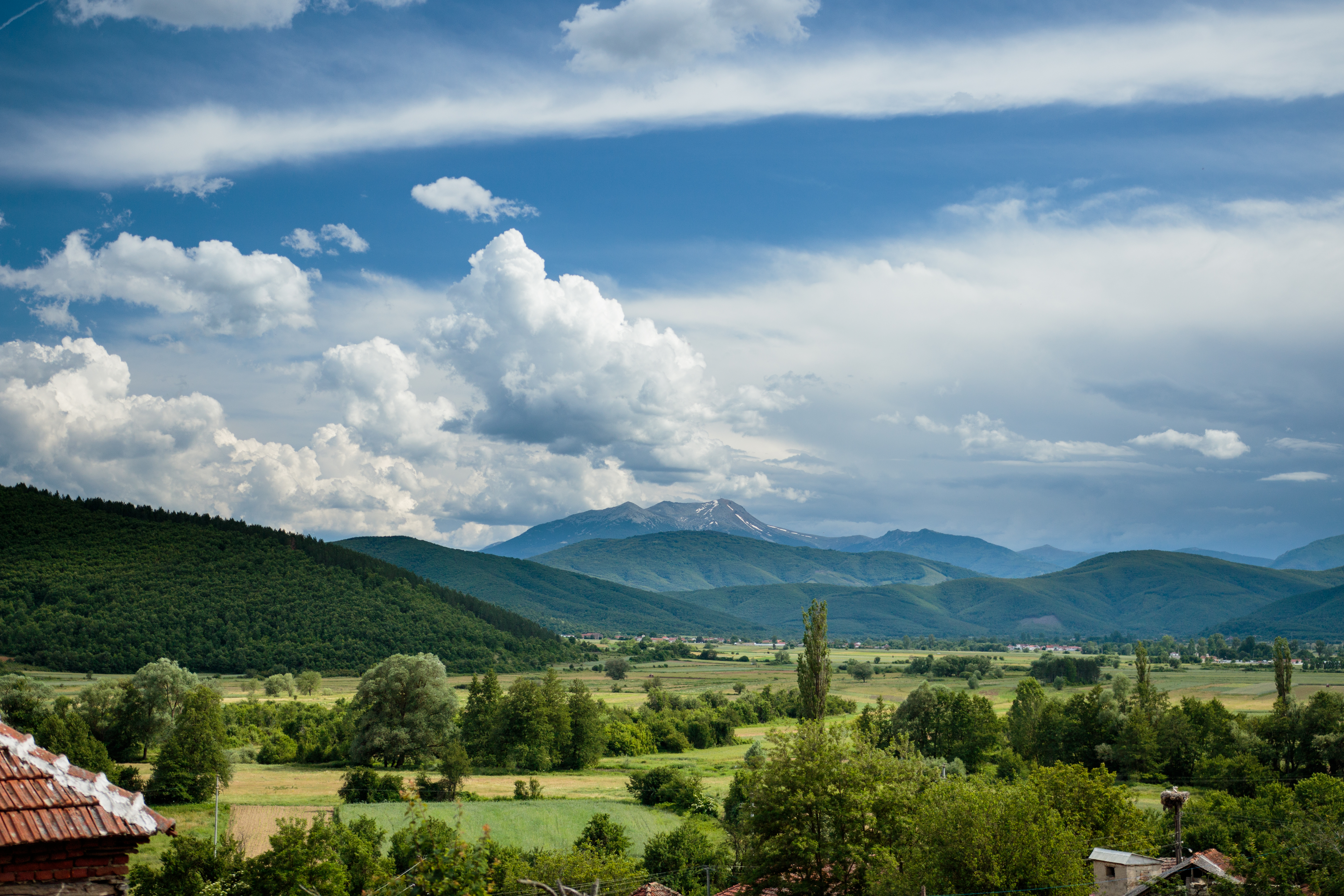 Small field in front of the village Graište